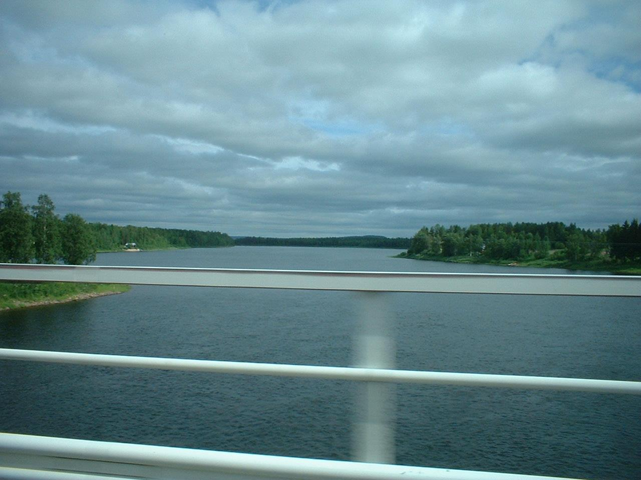 River Muonio älv / Muonionjoki seen from the bridge connecting Kolari, Finland (on the left) and Pajala, Sweden (on the right).